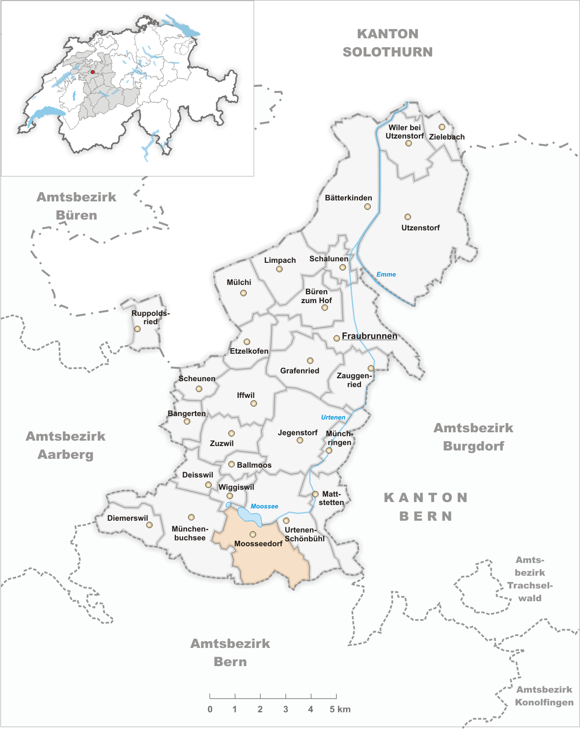 Municipality Moosseedorf